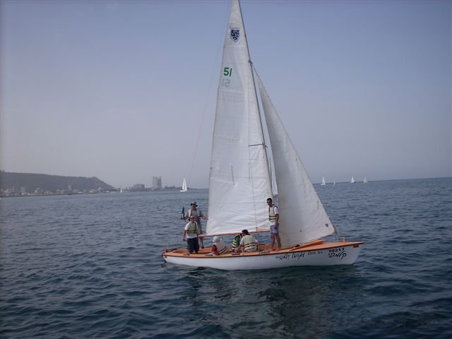 Sailing boat named after Captain Klemperer